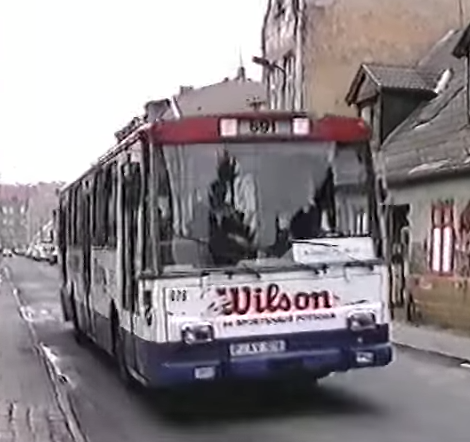 Potsdam trolleybus 976 on duty